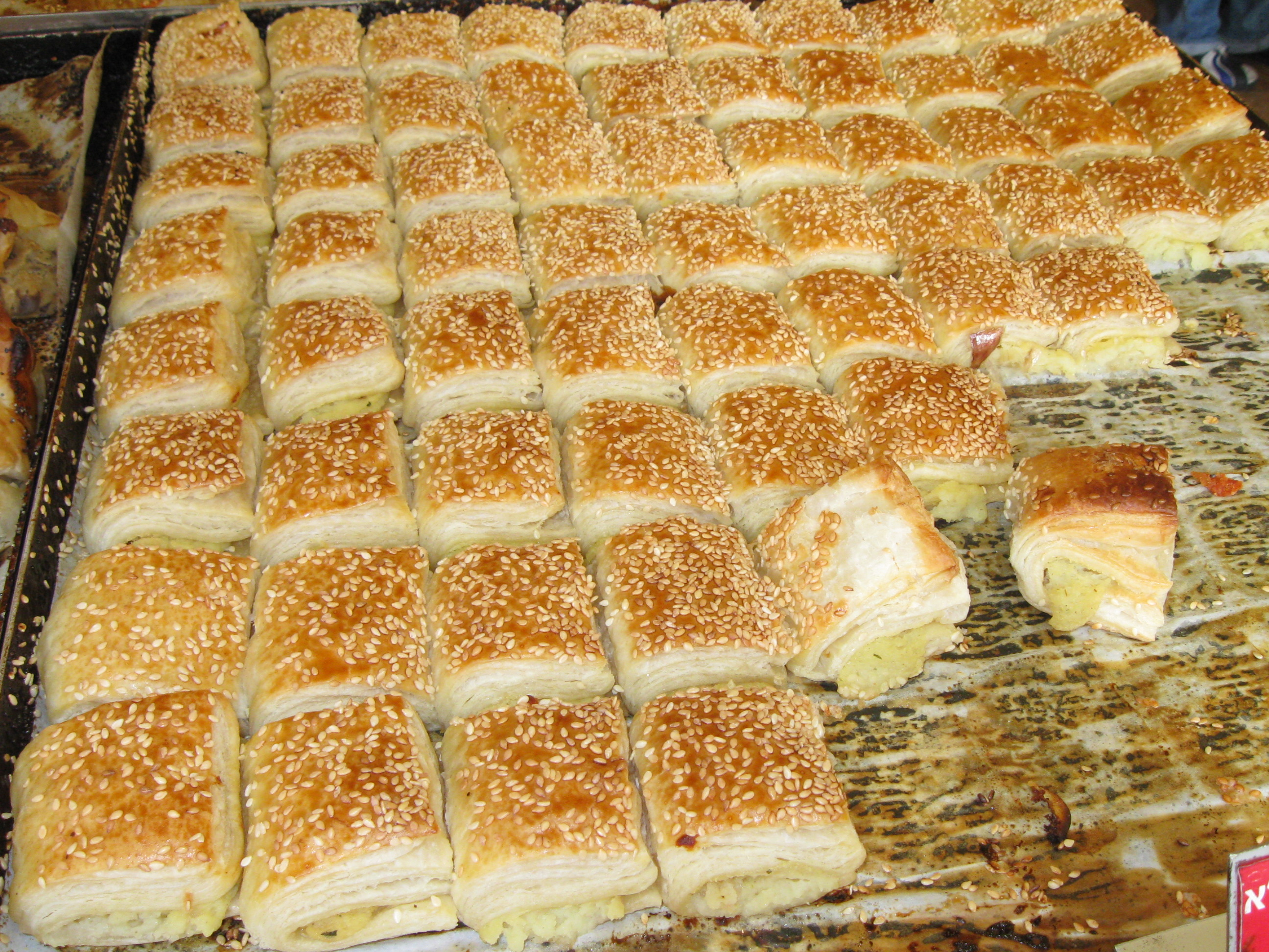 Freshly-made potato bourekas on sale at a stall in Mahane Yehuda Market, Jerusalem